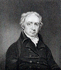 William Lisle Bowles (1762-185O), an English poet